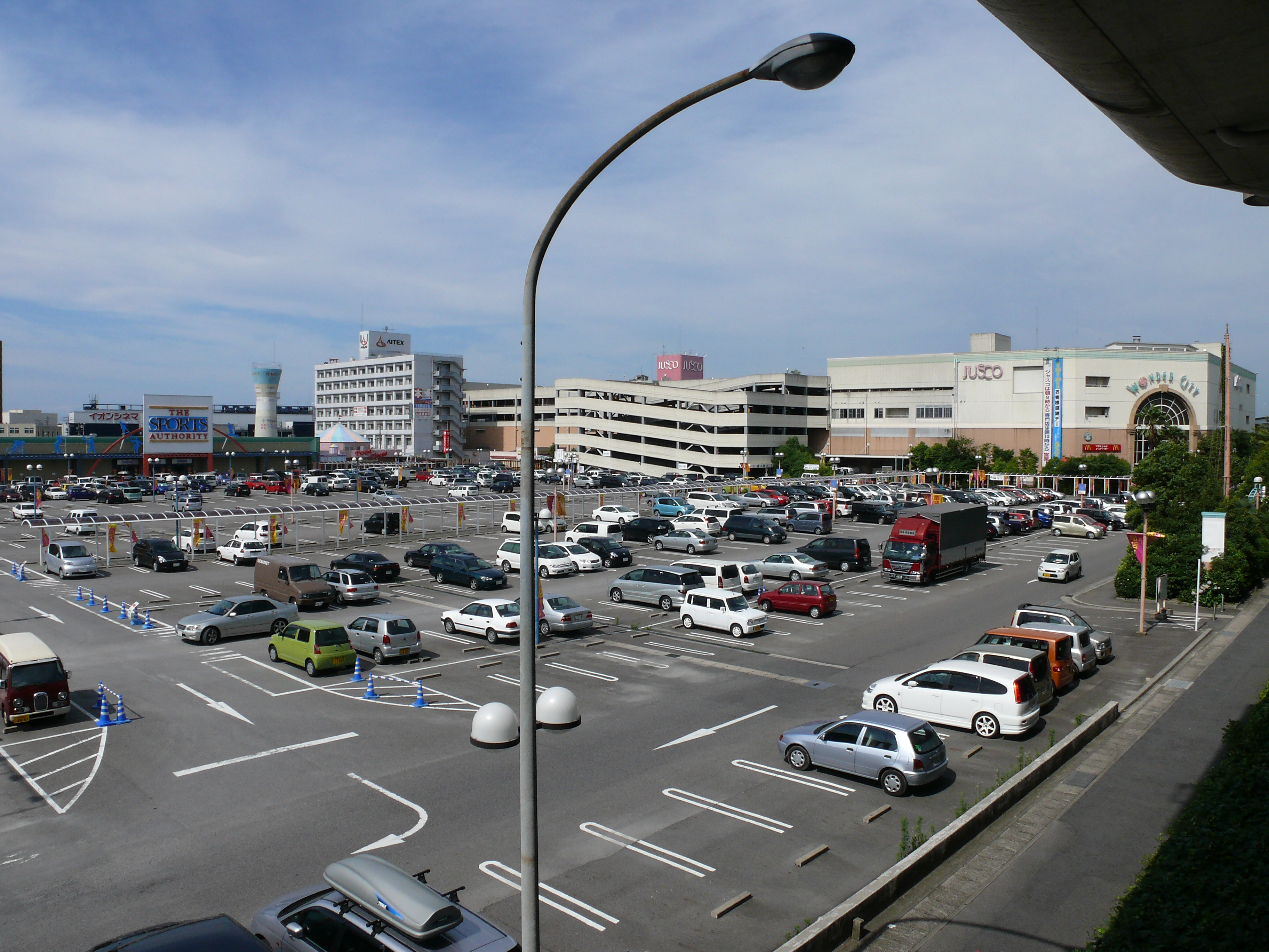 Diamond City of Wonder City Shopping Center.